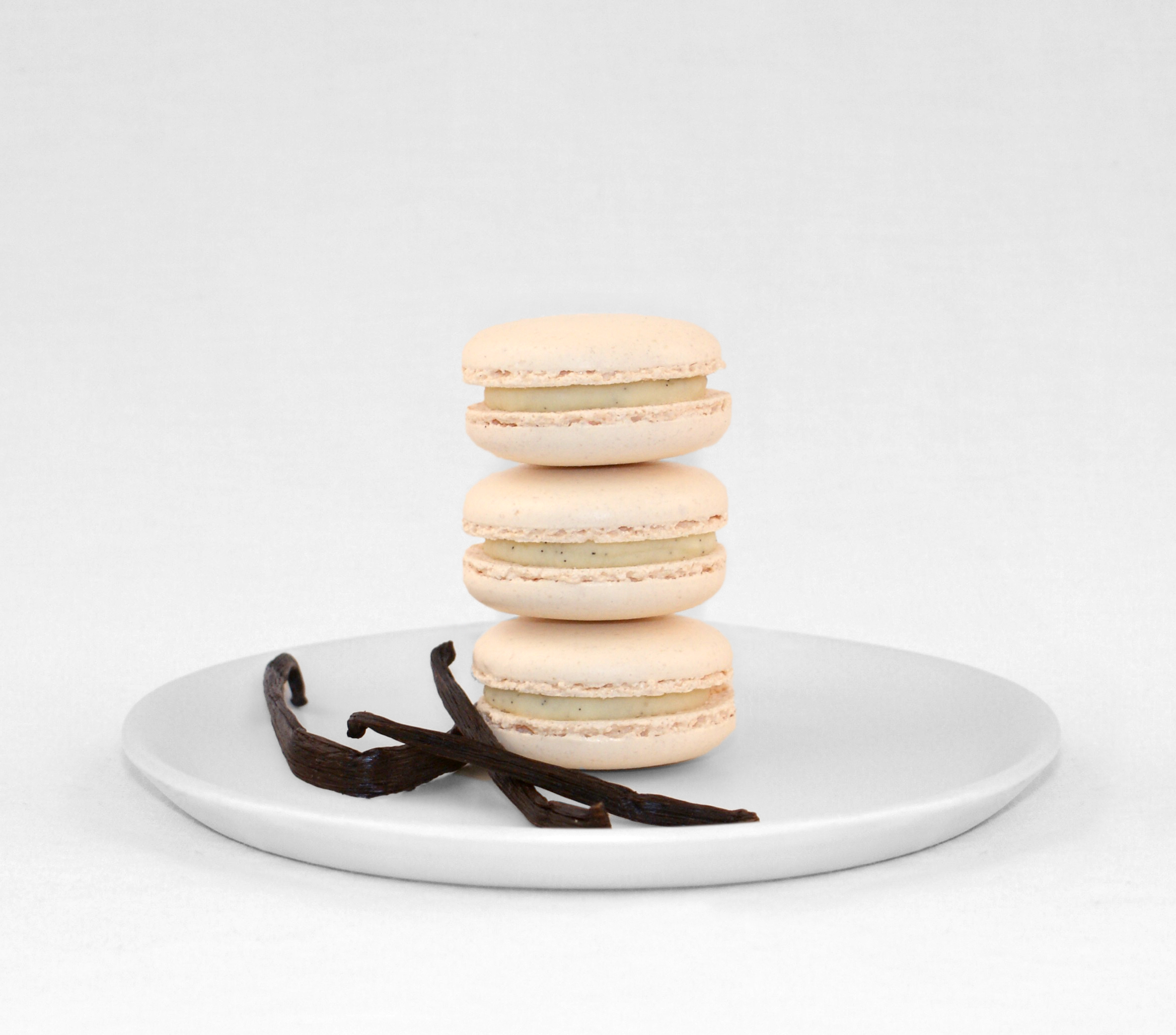 A vanilla macaron, Honey B's Macarons LLC ©2014